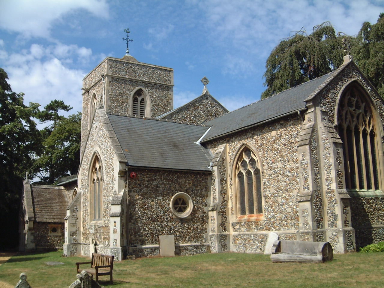 Photograph of Hildersham Church, from the south east